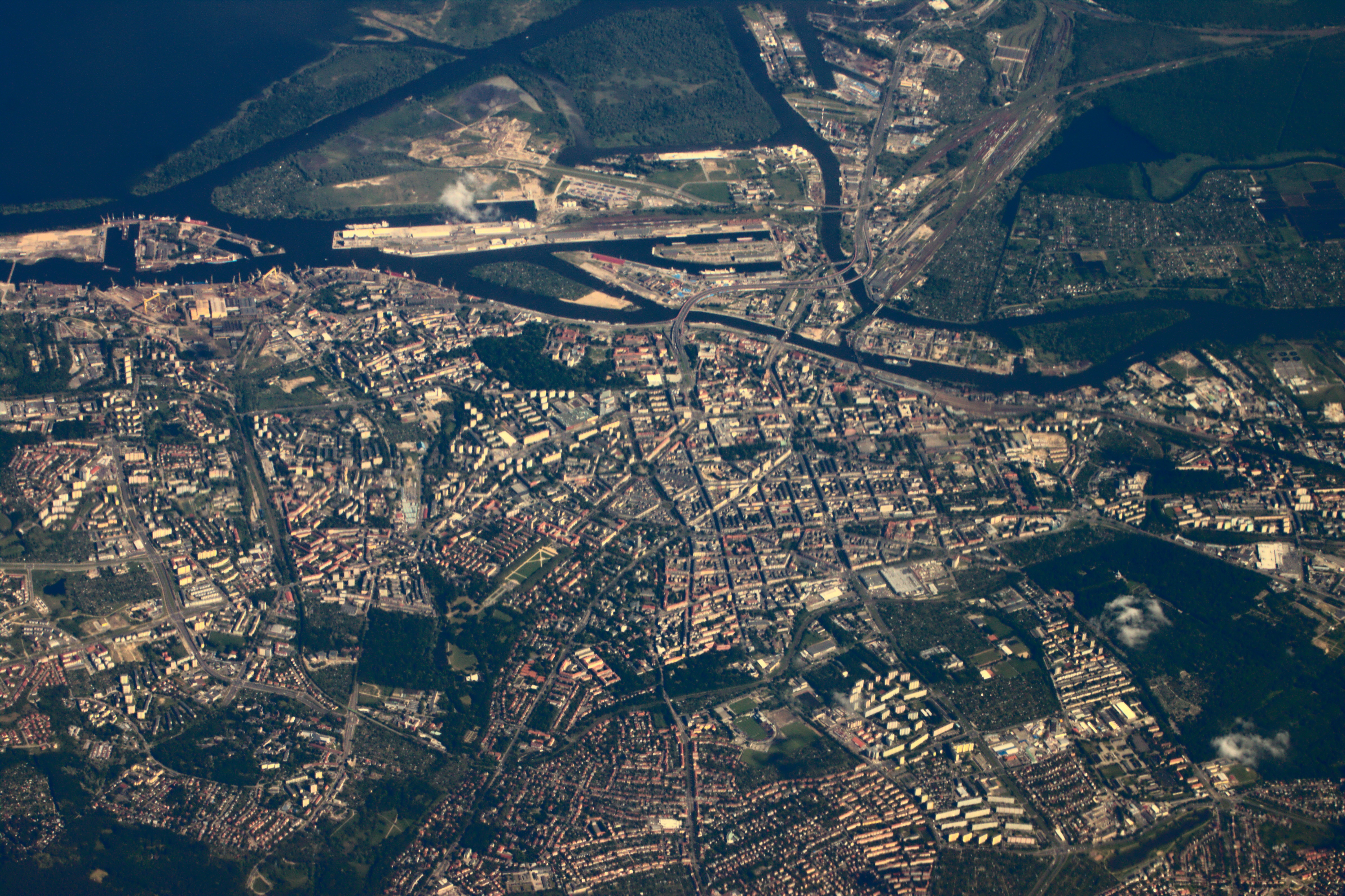 Aerial view of the city of Szczecin, Poland